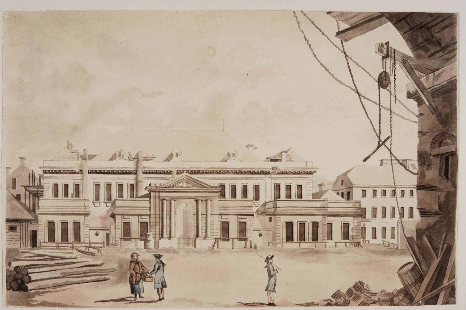 National Theatre in the Krasiński Square in Warsaw. Drawing by Zygmunt Vogel